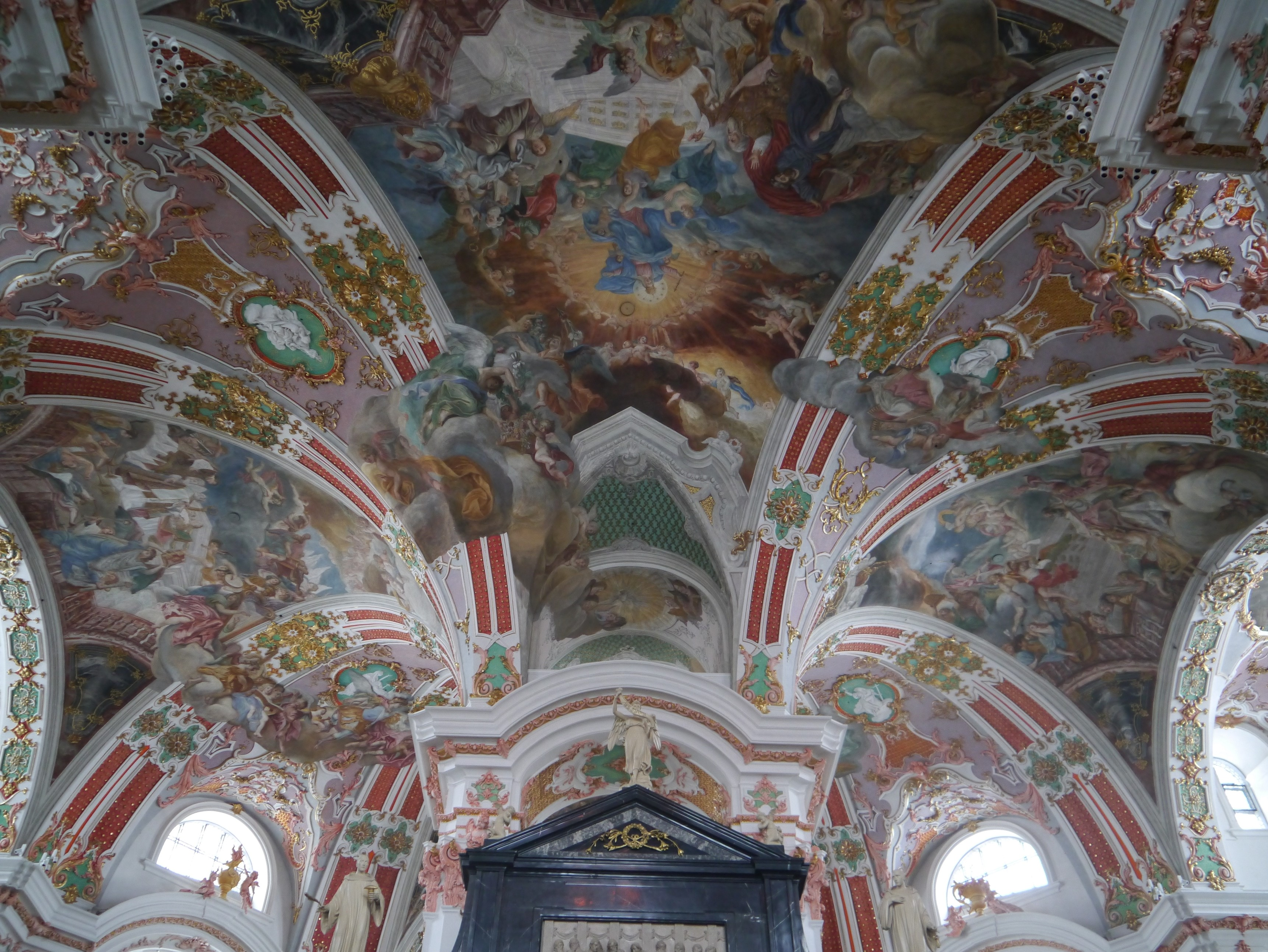 Vault below the House of the Black Madonna of the Abbatial Cathedral St. Mauritius, Einsiedeln, Canton of Schwyz, Central Switzerland